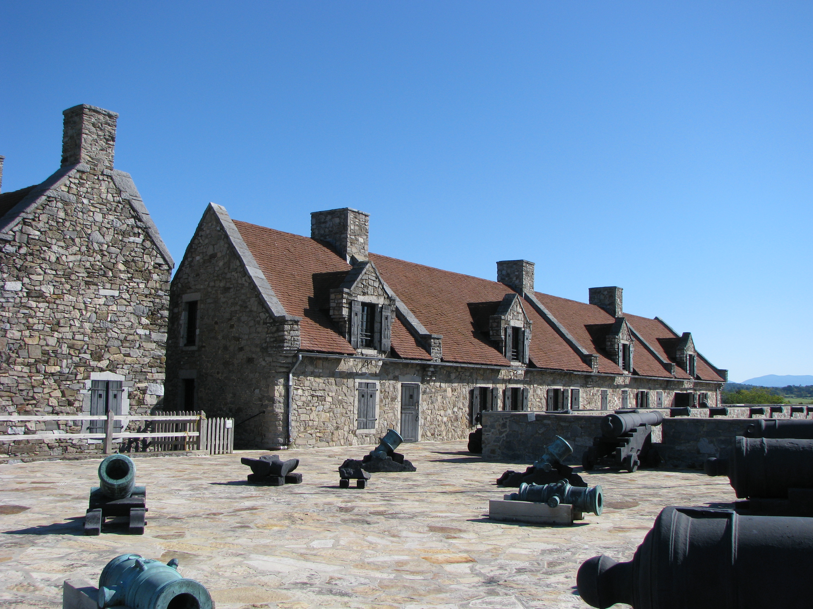 Fort Ticonderoga barracks, canon, mortars